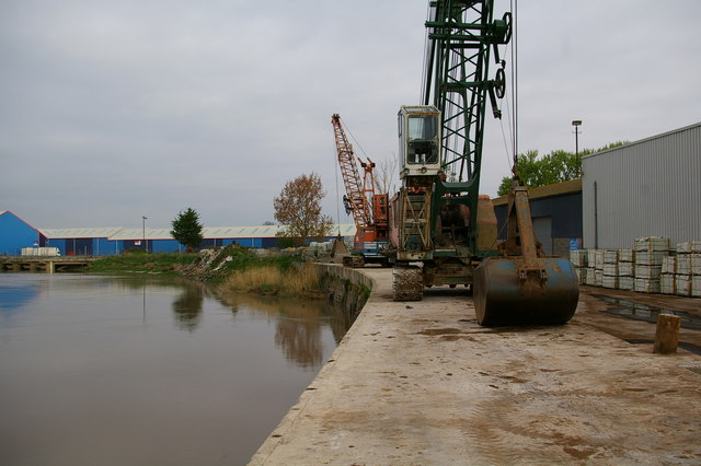 Dunball Wharf in early evening This small industrial wharf on the River Parrett estuary north of Bridgwater was once part of the Bristol & Exeter Railway and later the Great Western Railway. the rails have long since gone but it is still used to handle building materials and animal feedstuffs. A public footpath runs through the site.